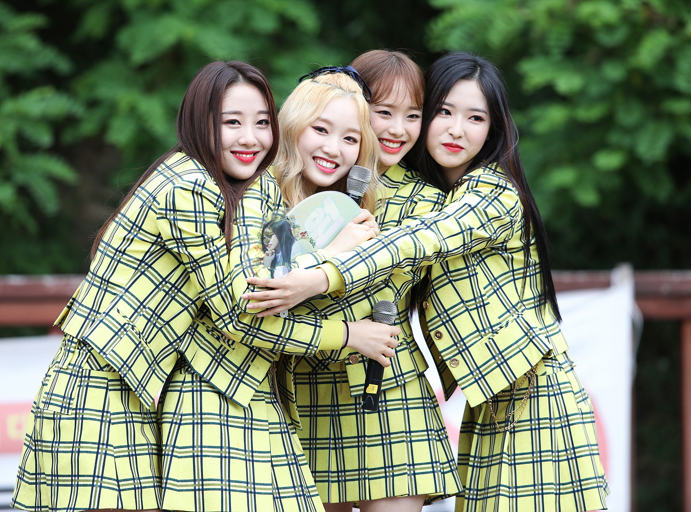 180610 이달의소녀 인기가요 미니팬미팅 사진